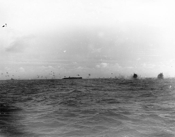 A Japanese airplane crashes near USS Princeton (CVL-23), during an air raid off Formosa, 14 October 1944. Battleship in the left distance is probably USS South Dakota (BB-57) or USS Alabama (BB-60). Original Description: Photo # 80-G-285050 Japanese plane crashes near USS Princeton, off Formosa, 14 October 1944